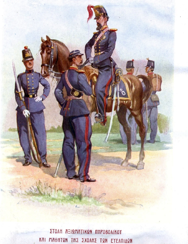 Uniforms of cadets of the Hellenic Army Academy and of Artillery officers (center), ca. 1860